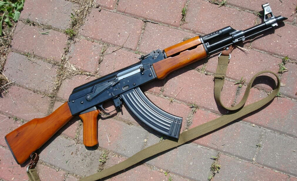 Norinco type 56S rifle